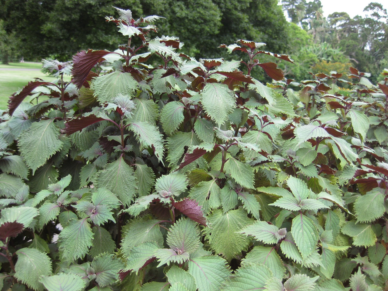 Photographed at the Royal Botanic Gardens Sydney (Australia) in January